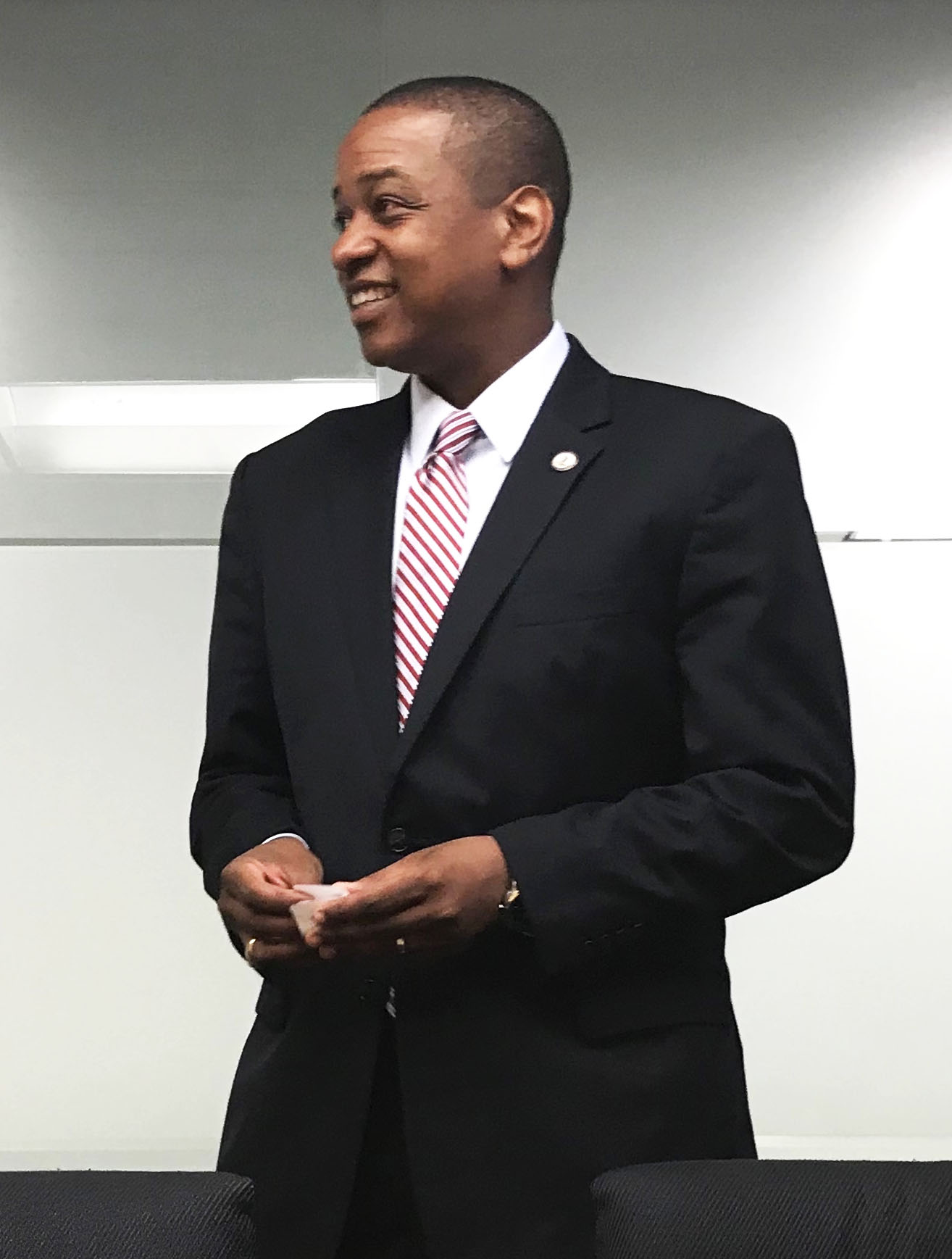 Justin Fairfax